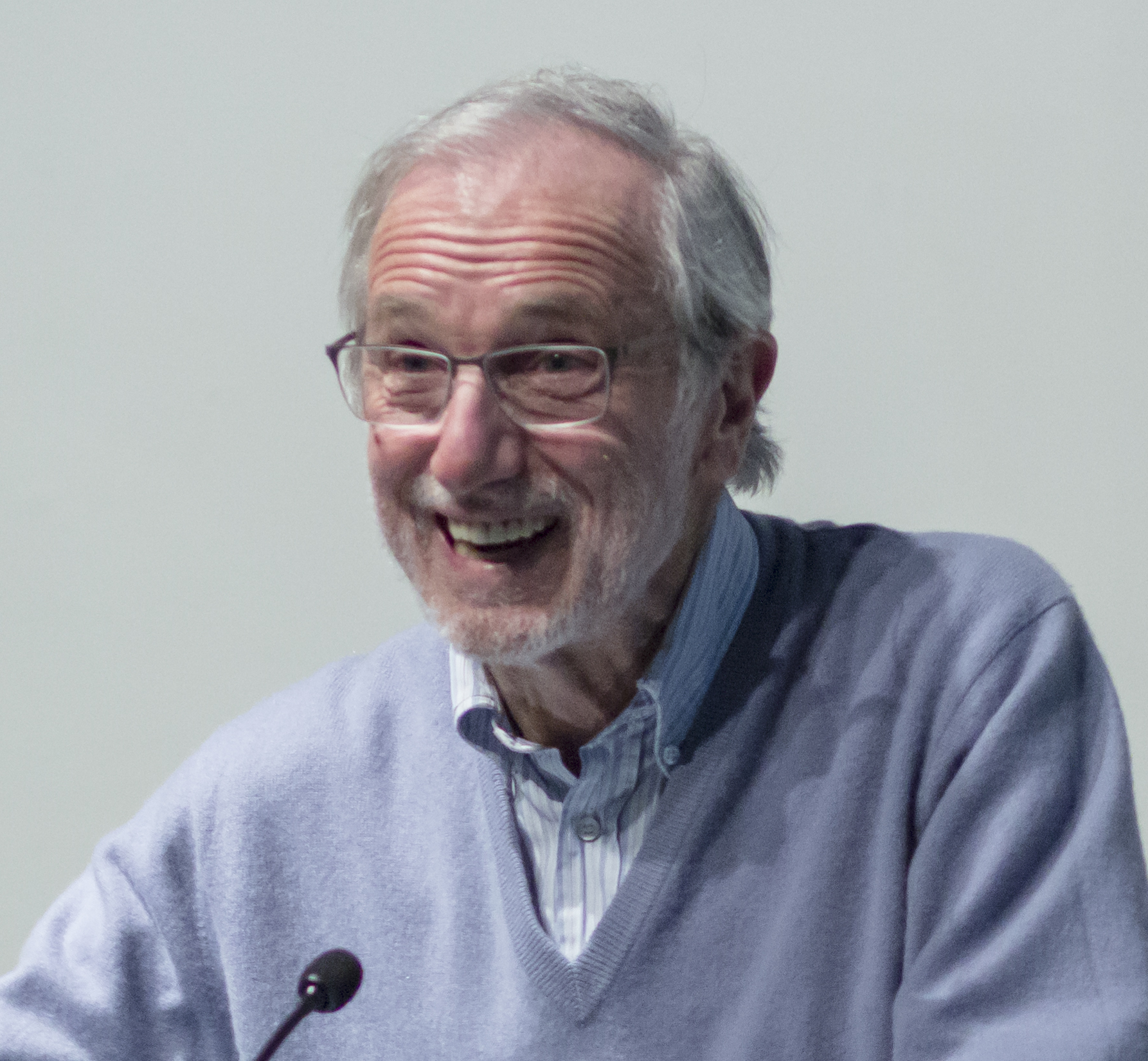 Celebrated architect Renzo Piano presents work by Genoa, Paris, and New York-based Renzo Piano Building Workshop — a client roster that includes the Chicago Art Institute, the Morgan Library and Museum, the New York Times, the Whitney Museum, and Columbia University. Once completed, the university's 17-acre and 6.8 million square-foot Manhattanville campus will retain the existing street grid, improve pedestrian access, enhance waterfront views, introduce open space to the public, and provide new homes for the Jerome L. Greene Science Center, the School of the Arts, Columbia Business School, the School of International Public Affairs, an academic conference center, and more. Response by Dean Amale Andraos and Nicolai Ouroussoff. Sponsored by the Ornamental Metal Institute of New York.